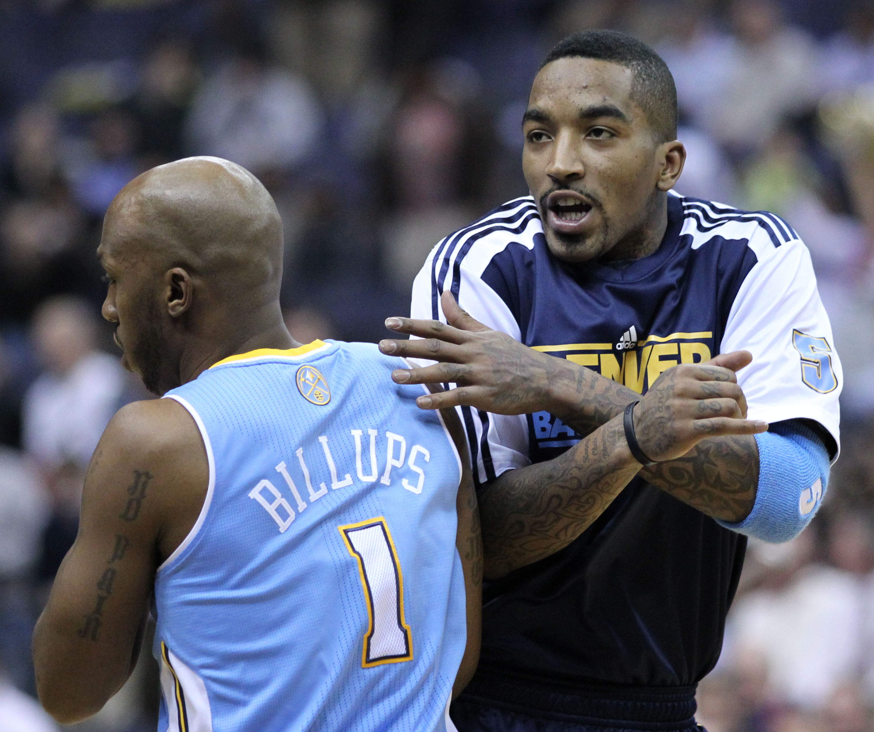 Washington Wizards v/s Denver Nuggets January 25, 2011